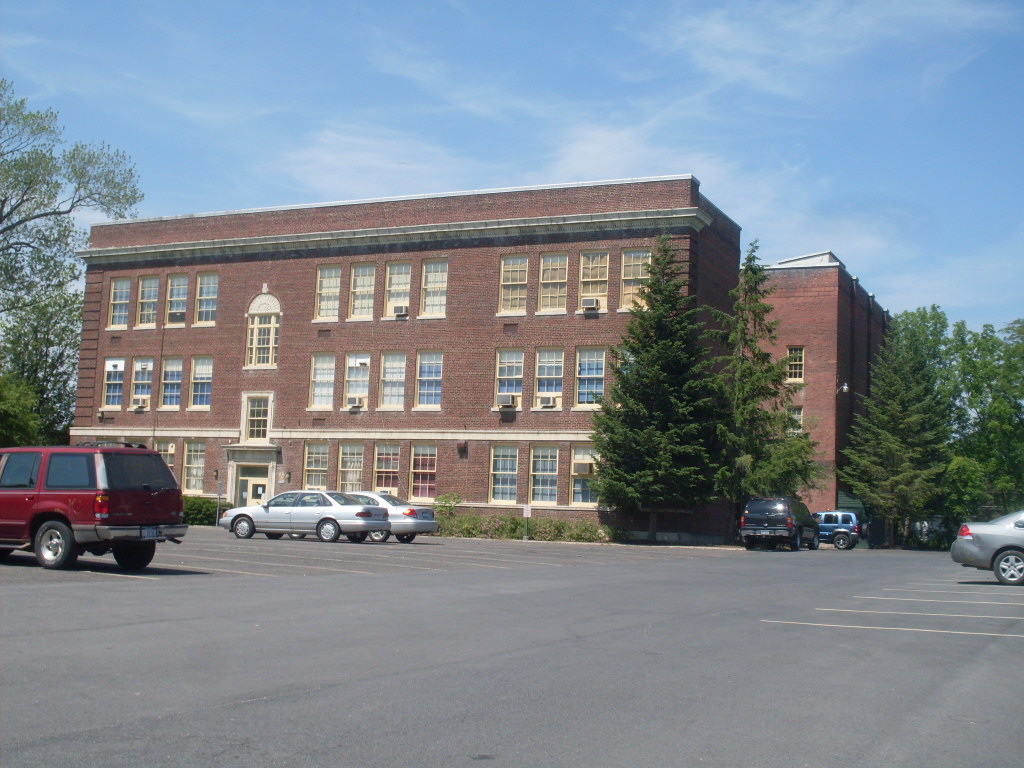 Old Mynderse Academy, now known as Academy Square in Seneca Falls, NY